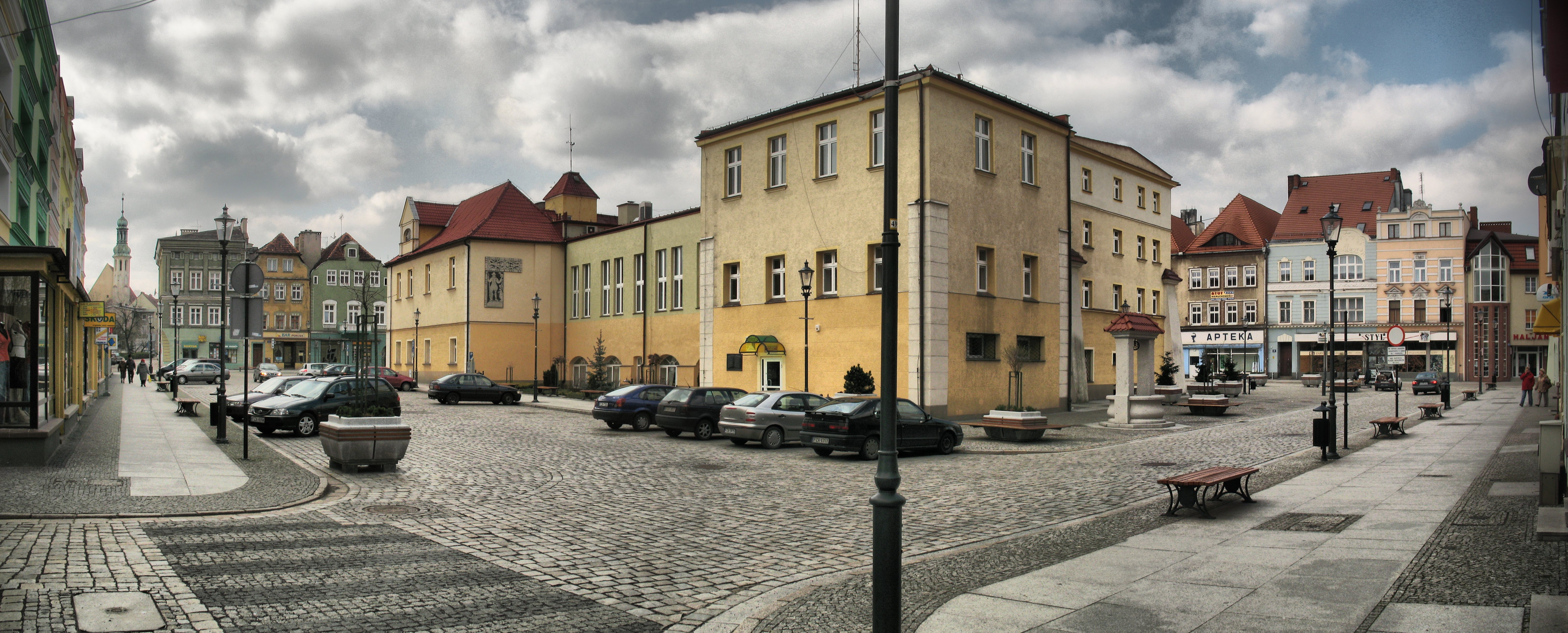 Żary, the Old Market